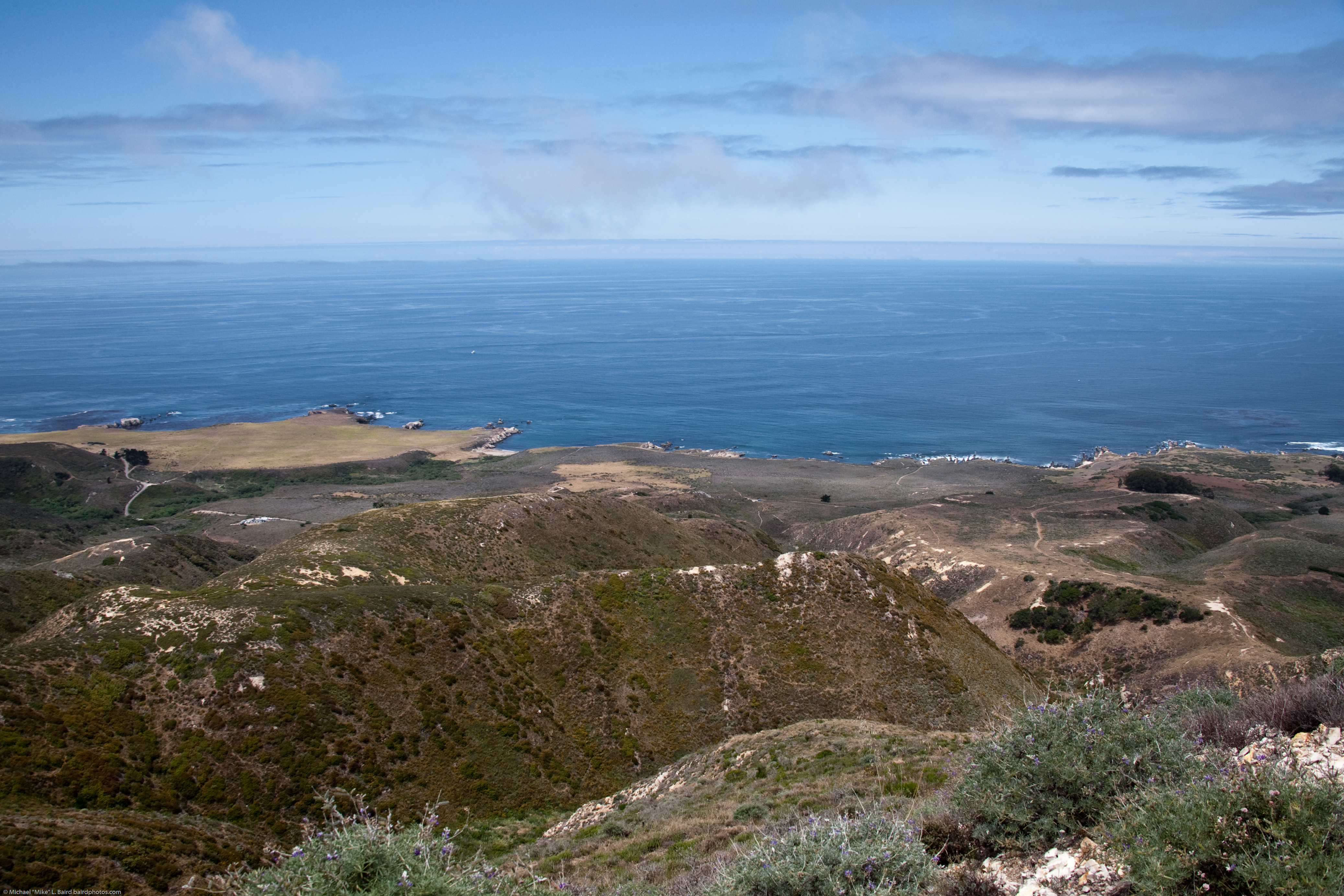 The Pacific Ocean coastline as seen from Valencia Peak trail in Montana de Oro.